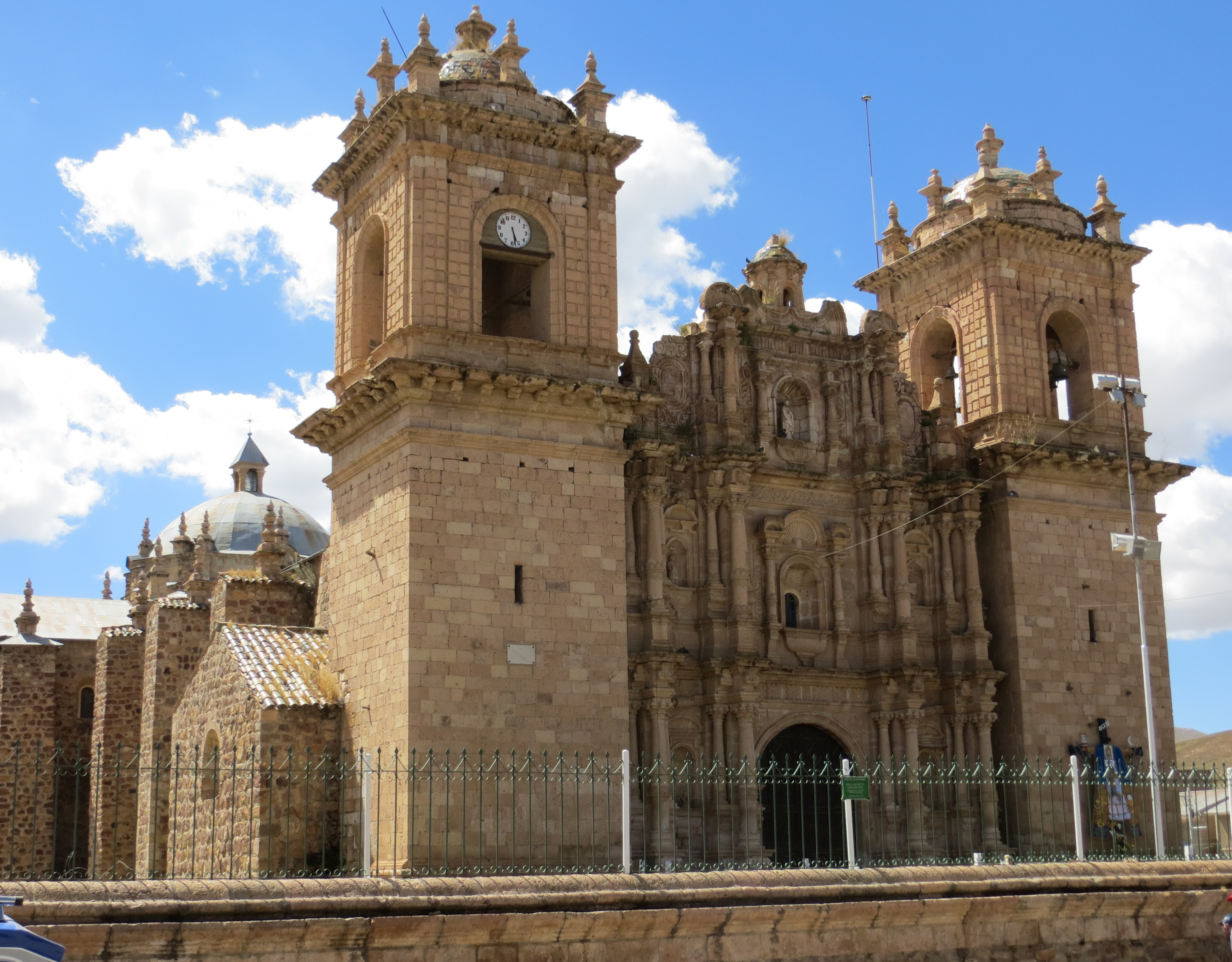 A photo of the cathedral located in the town of Ayaviri.